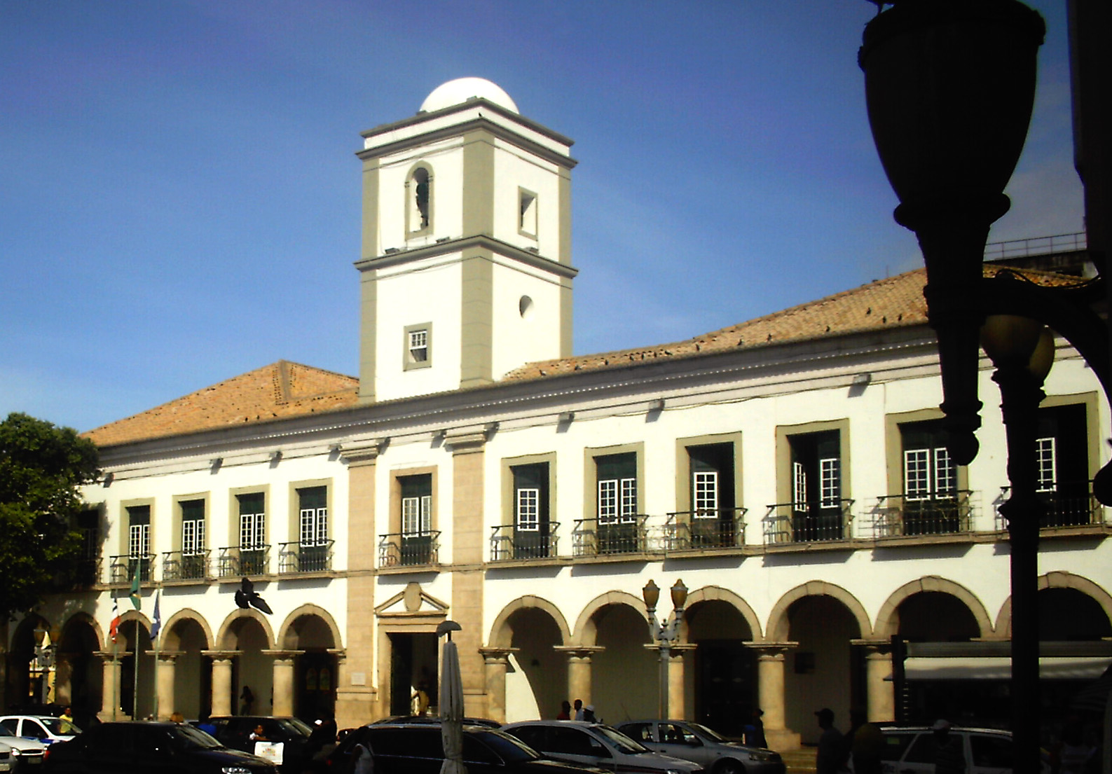 Old Municipality of Salvador, Brazil